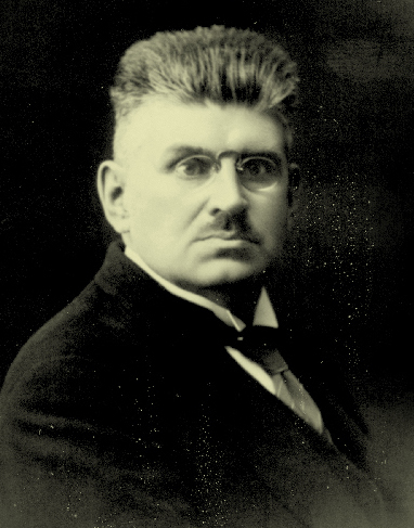 Photograph of the Finnish journalist Onni V. Tuisku (1869–1920).